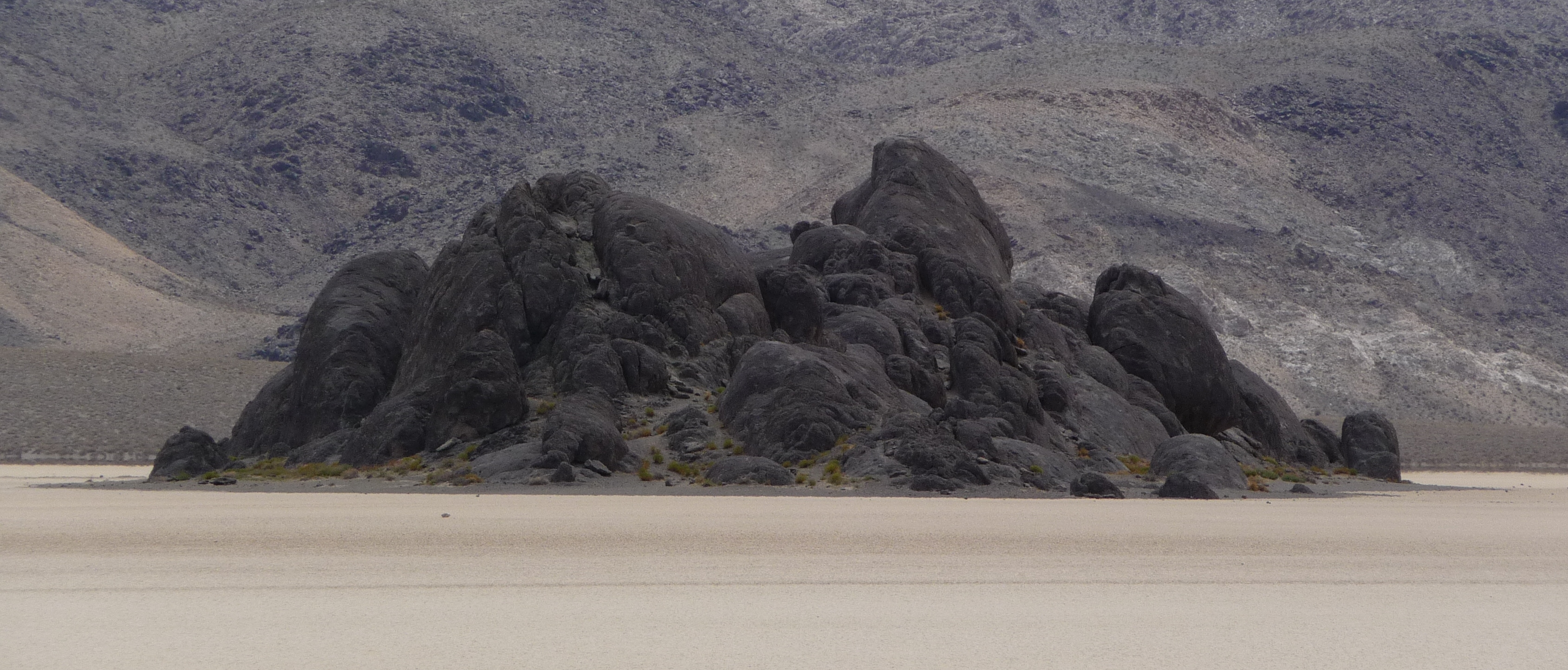 Death Valley NP - Racetrack Playa - Grandstand